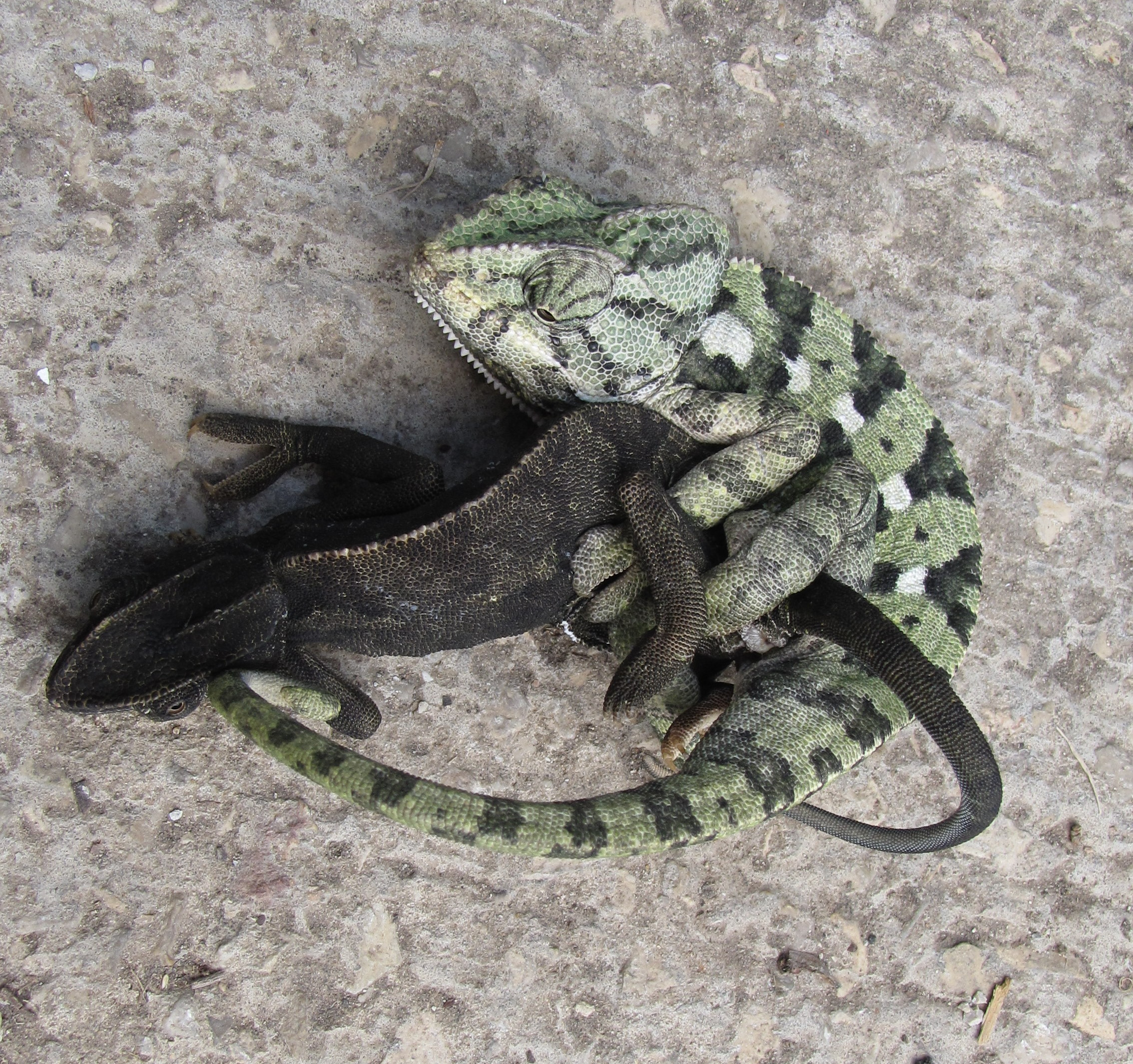 Chameleons mating